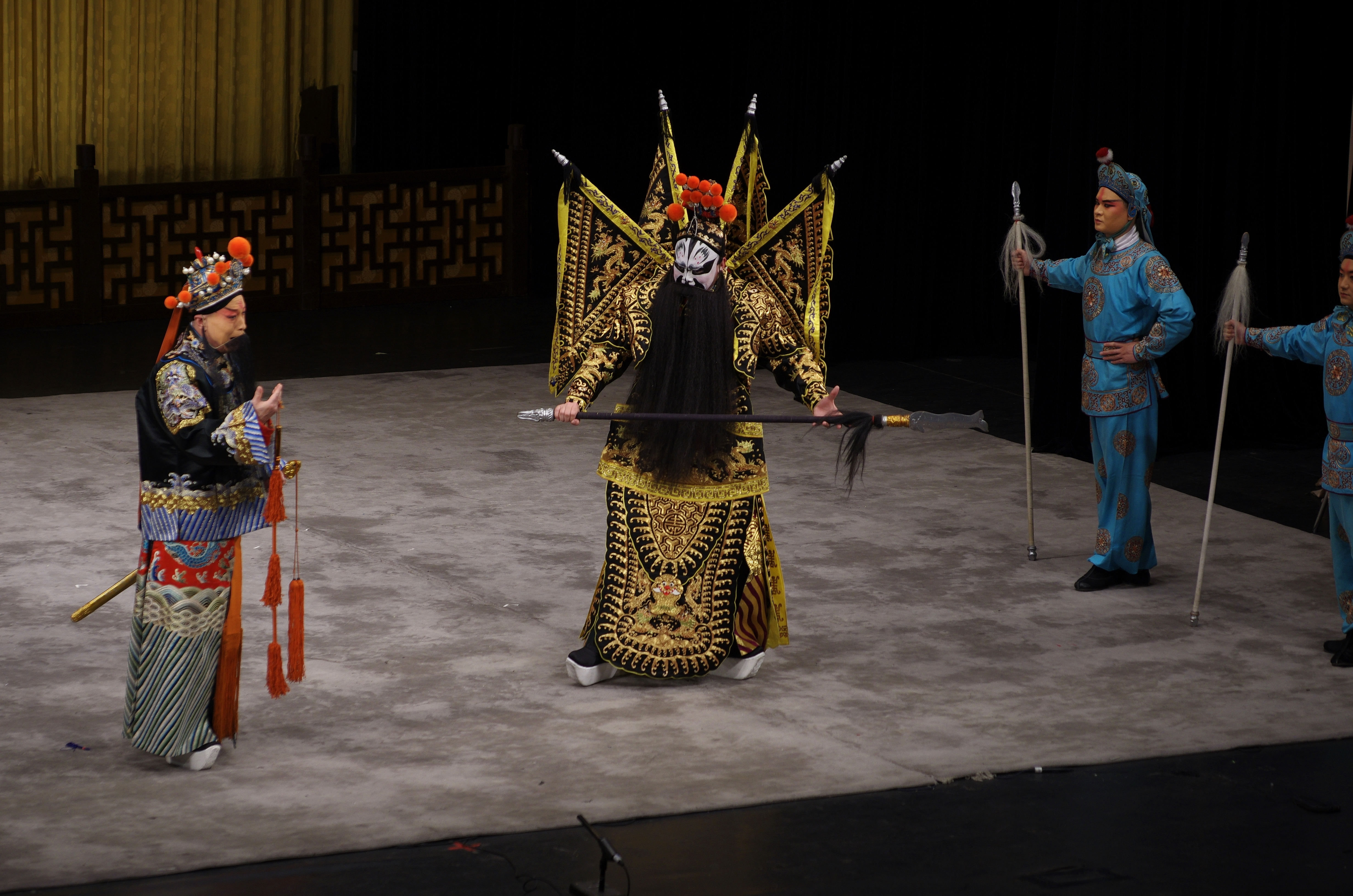 A Peking opera performance in Tianchan Theatre by Shanghai Jingju Theatre Company. Zhang Fei is played by actor Wang Jianshuai (王建帅), and Liu Bei is played by actor He Shu (何澍).